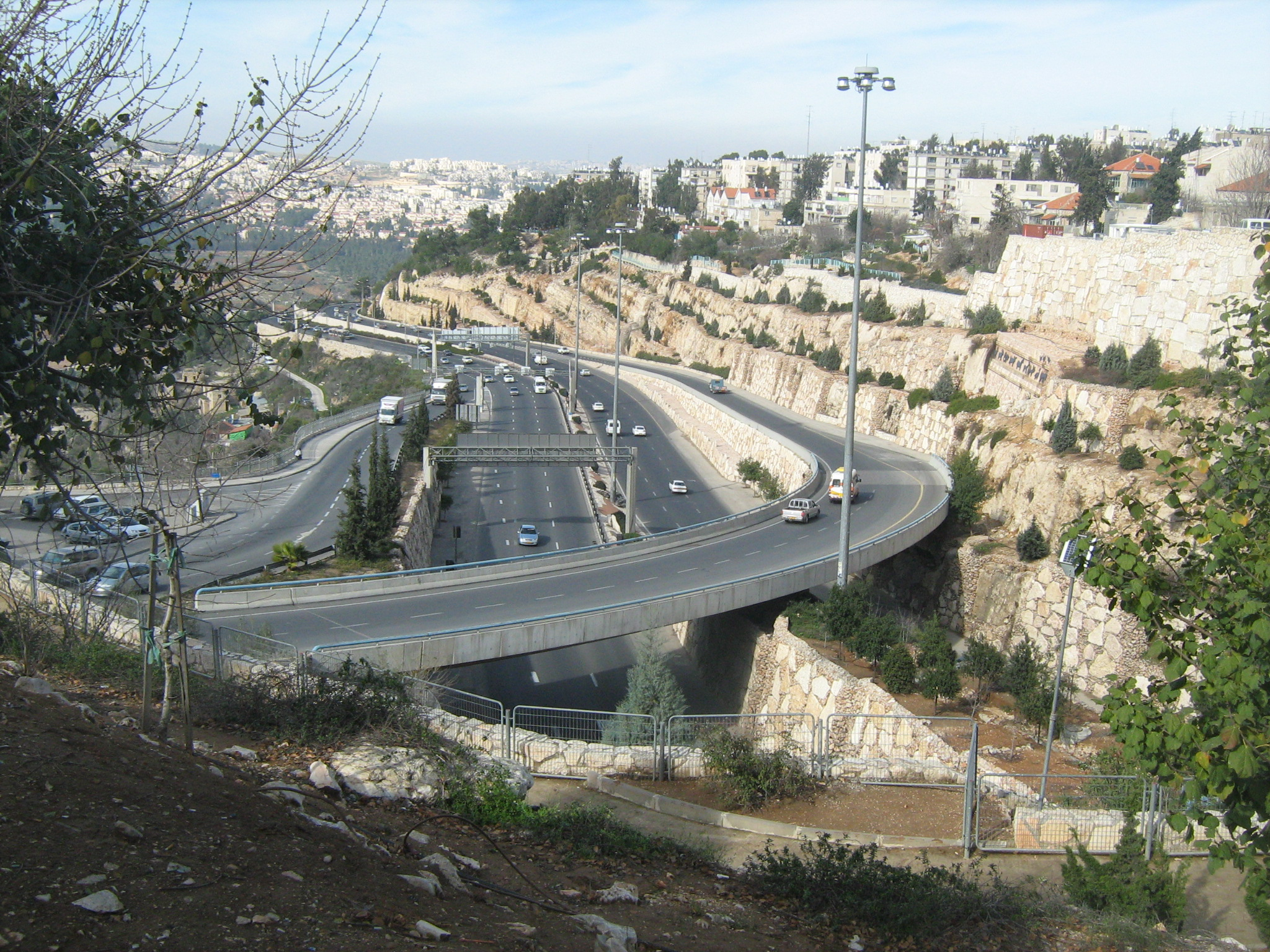 Israel Highway 50 (Sderot Begin) northward at Givat Shaul Interchange